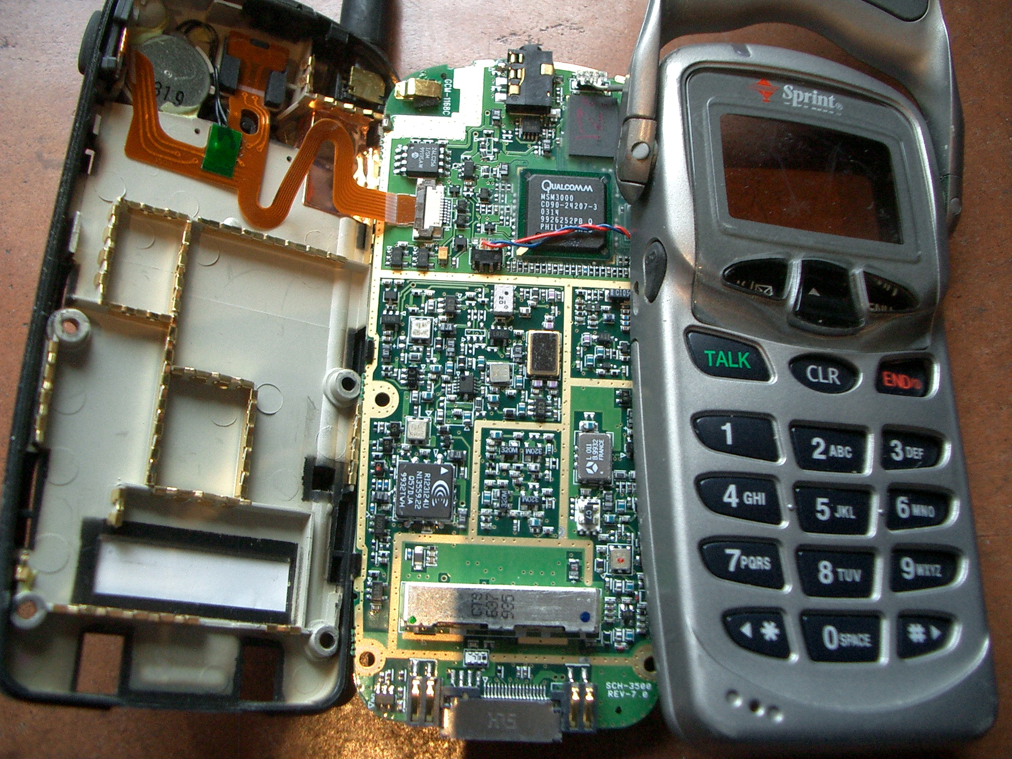 Samsung cdmaOne mobile phone disassembled. With metal coated partitions for interference shielding.